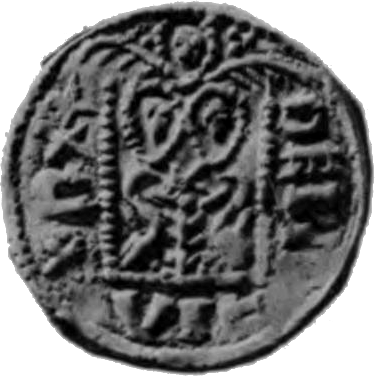 A coin of Healfdene (died 877).